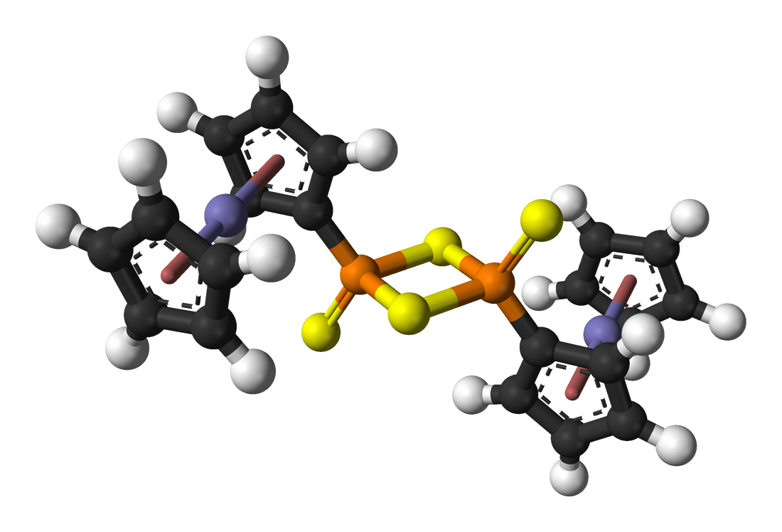 Ball-and-stick model of the Fp2P2S4 molecule (diferrocenyl 1,3,2,4-dithiadiphosphetane 2,4-disulfide)